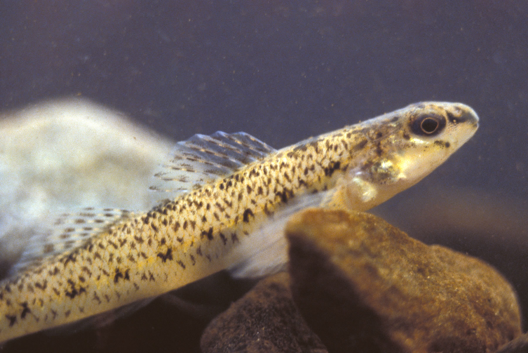 Etheostoma nigrum USFWS photo